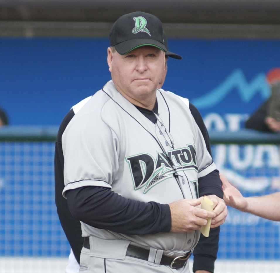 Donnie Scott (center), manager of the Dayton Dragons, discusses ground rules with umpires and exchanges lineup cards with the Lansing Lugnuts manager before a game in 2008.